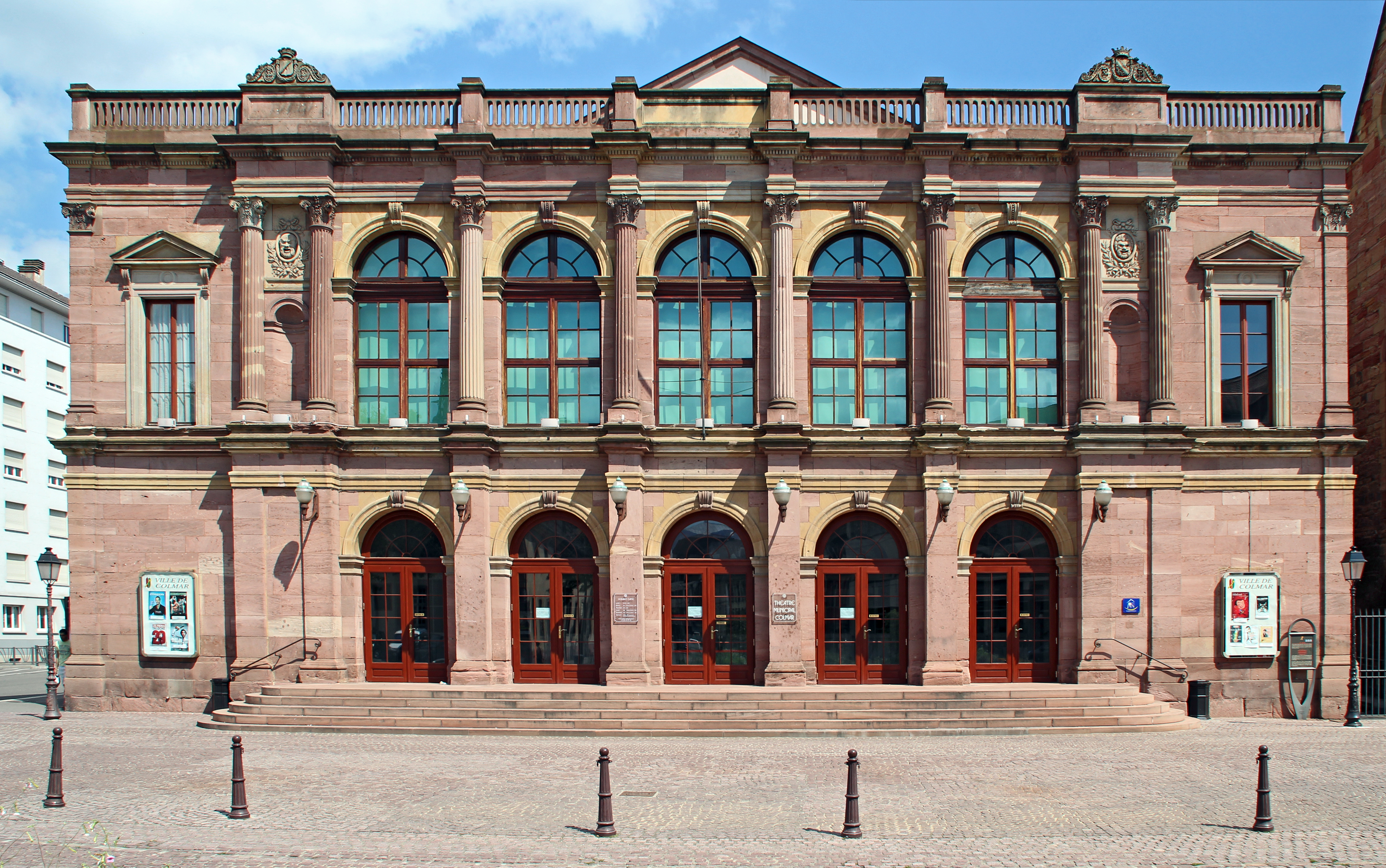 Municipal Theatre of Colmar, France.